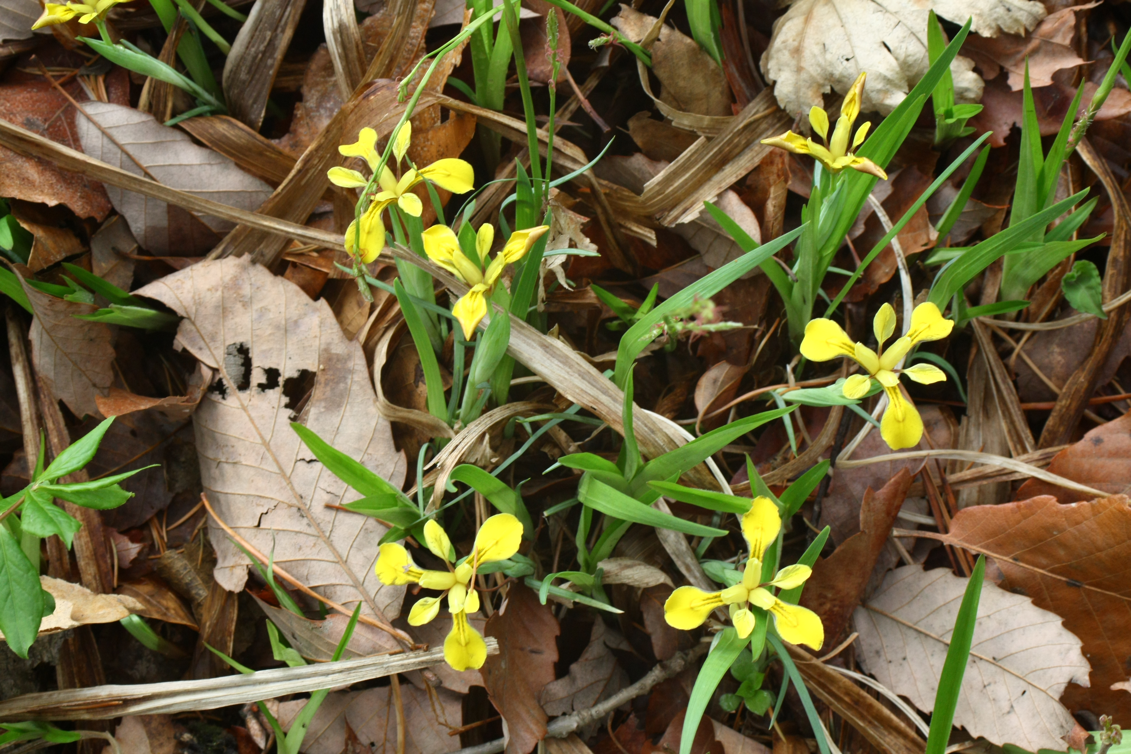 Iris minutoaurea in the KOREA NATIONAL ARBORETUM